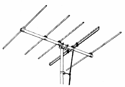 A television antenna from a 1954 advertisement by the Radiart Corp., Cleveland, Ohio. It is a Yagi-Uda antenna for use on the 'low band' analog channels 2-4, 47 - 68 MHz. It has three director elements (crossbars on left) and one reflector (crossbar on right), and it's direction of greatest sensitivity (main lobe) is of the end of the antenna to the left. The driven element is a folded dipole to match the 300 ohm twin lead feedline to the TV set. The antenna is made of aluminum tubing, the elements are roughly 6 feet across. Changes to image: Cropped out advertising copy and adjacent intruding images, redrew minor areas in image that were smudged through poor copying.